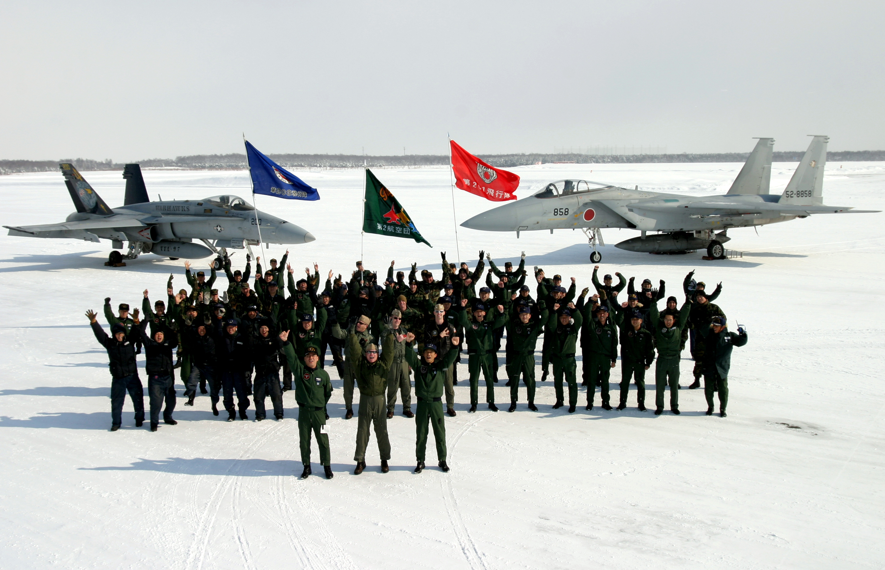 Strike Fighter Squadron 97 built a special relationship with the Japanese Air Self Defense Force in February 2008 with the successful completion of two Aviation Training Relocation (ATR) detachments. The first ATR brought two Warhawk jets 130 miles South of Iwakuni to Nyutabaru Air Base, where Navy Cmdr. James Preston III, VFA-97 executive officer, and Navy Lt. Brian Sawicki, VFA-97 training officer, took on the JASDF F-4 Phantoms stationed there. The last week of February took four Warhawk jets, four pilots and eight maintainers to Chitose Air Base. Located in Hokkaido prefecture near Sapporo City, Chitose boasted temperatures in the single digits and more than four feet of snow in two days. While operating with the Chitose-based JASDF F-15 Eagles it was not uncommon to be taxiing on two to three inches of hard-packed snow and walking on jets in below-freezing temperatures. Two of the ATR flights were cancelled due to complete white out conditions, bringing the field’s visibility dangerously low.